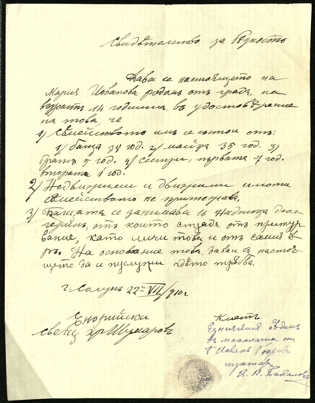 Poverty Certificate from Thessaloniki Exarchate eparchy